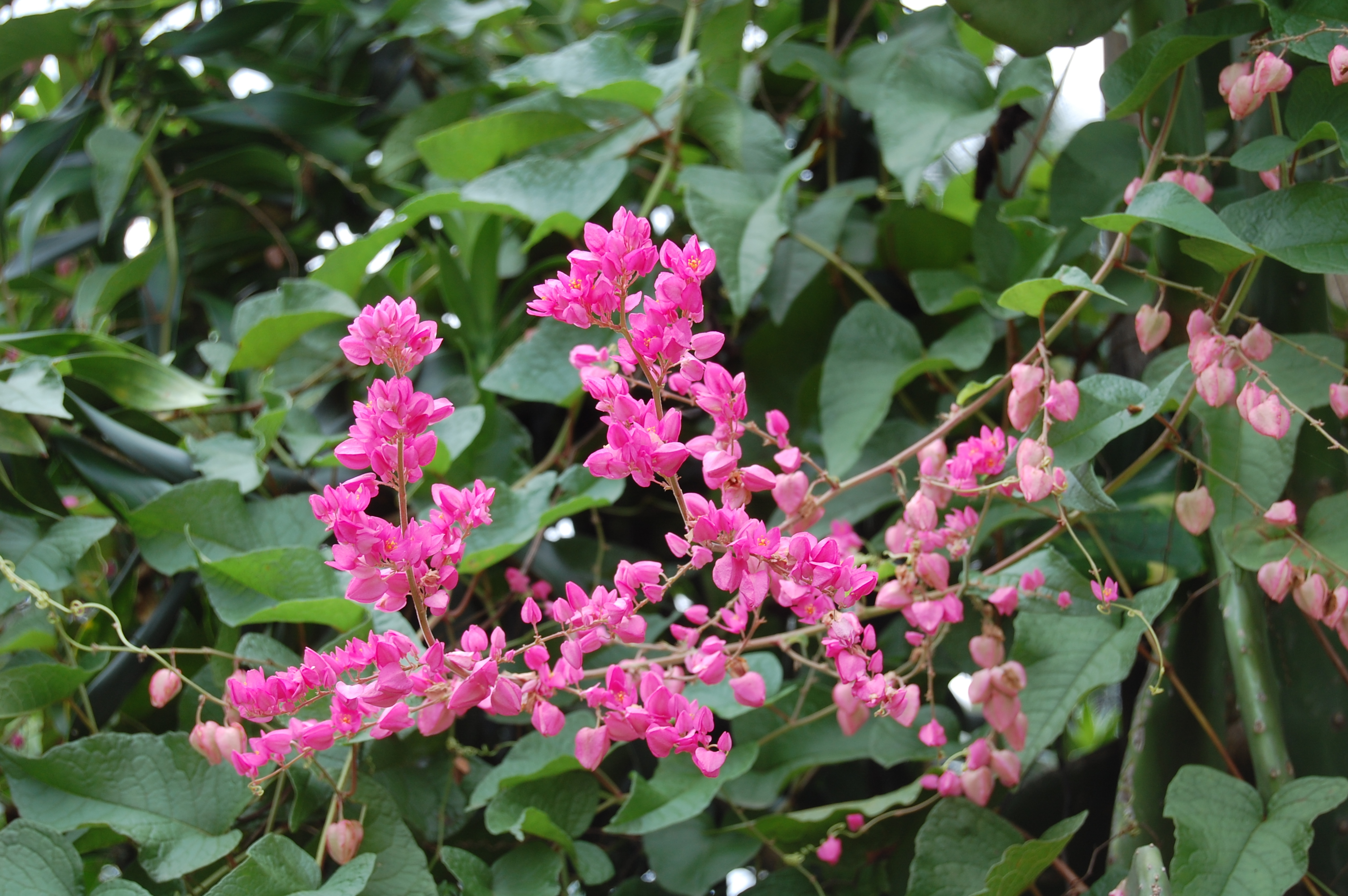 Antigonon leptopus